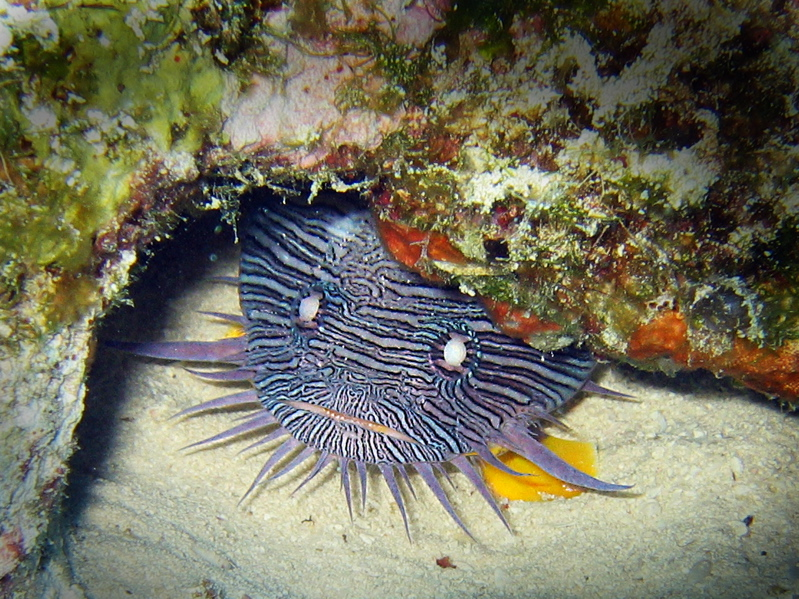 Splendid Toadfish (Sanopus splendidus) shot at Paradise Reef, Cozumel.